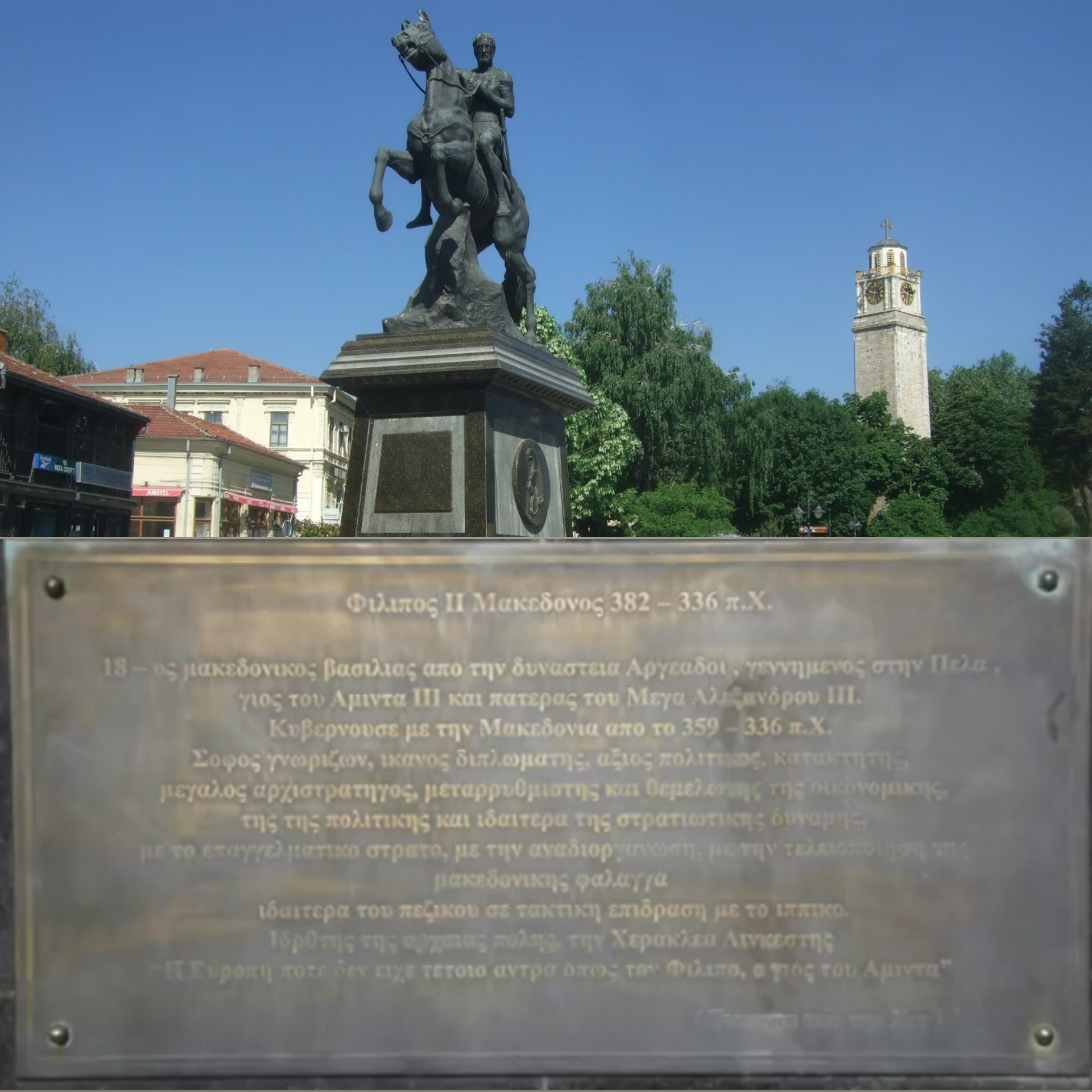 Philip II of Macedon statue in Bitola with Greek inscription.